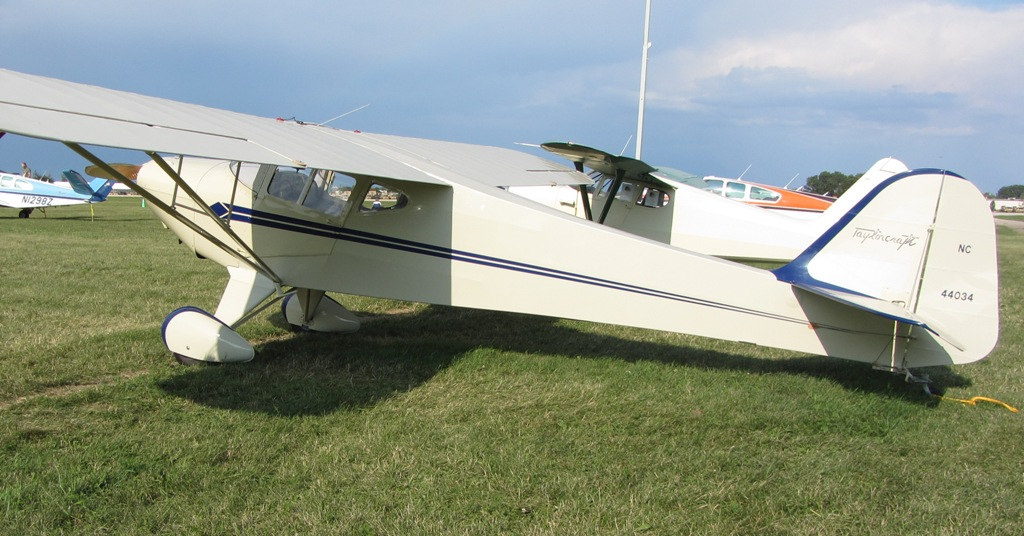 Taylorcraft BC12-D